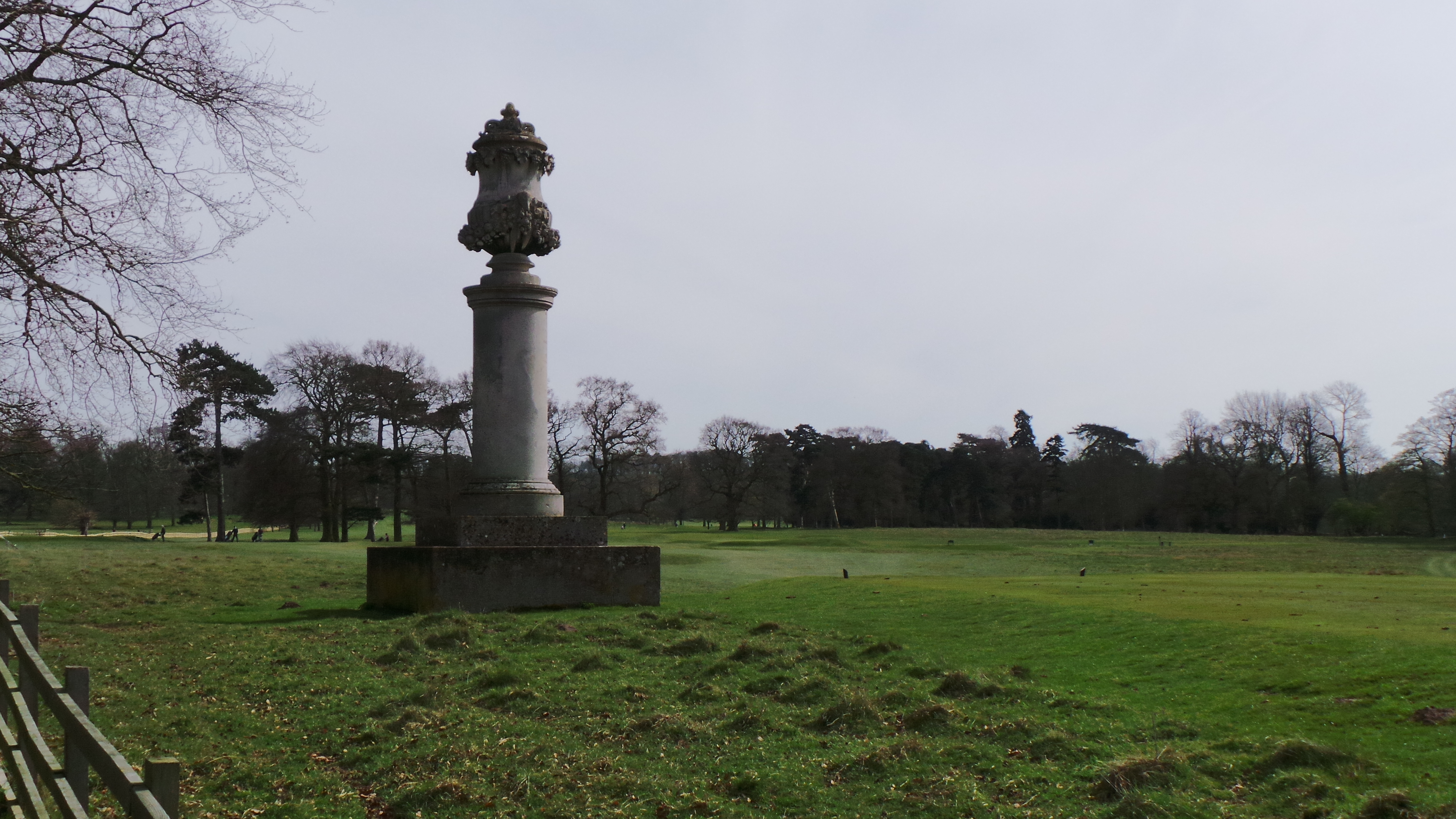 Monument to Viscount Alford in Belton Park.